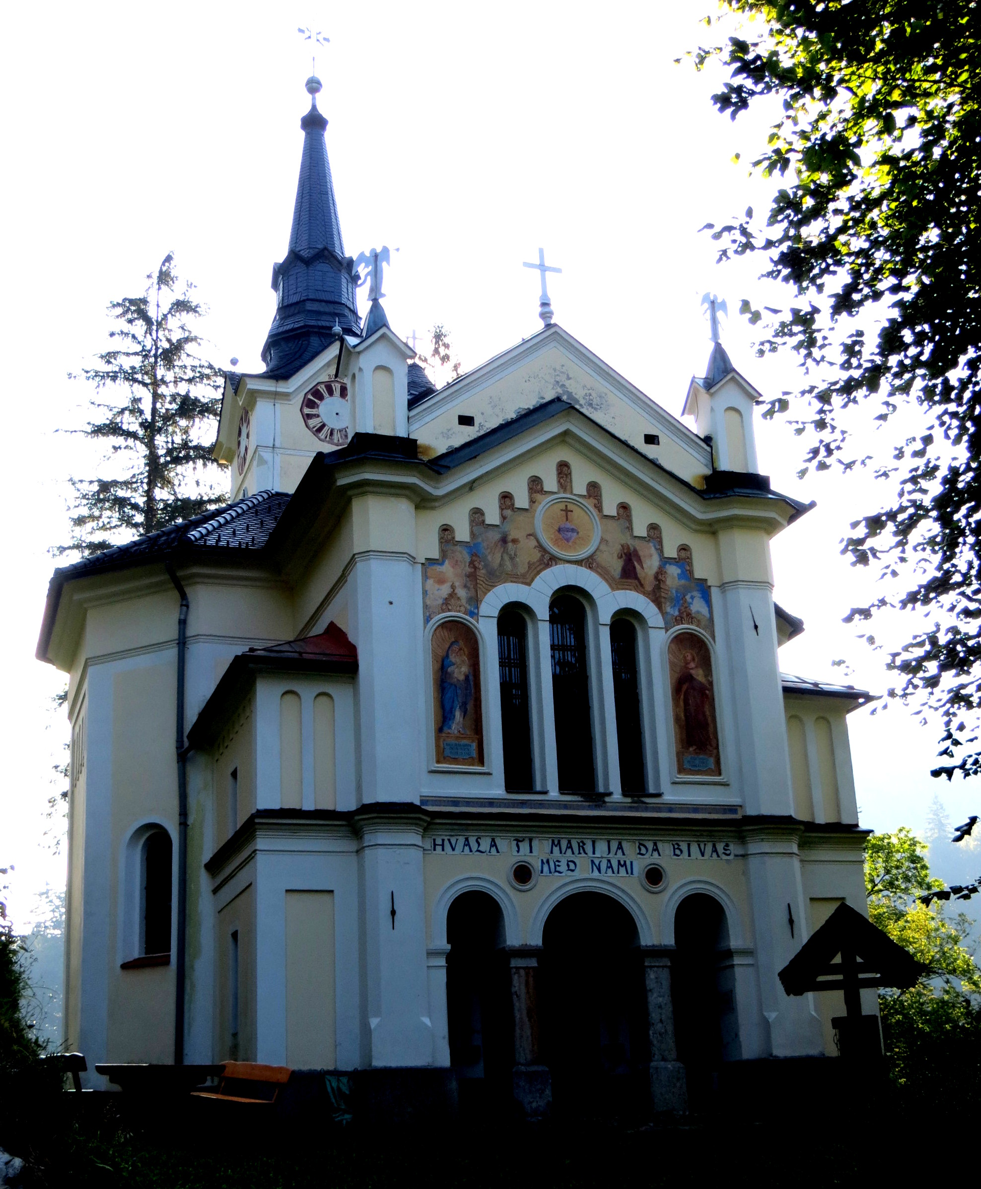 Our Lady of Loreto Church in Zali Log, Municipality of Železniki, Slovenia